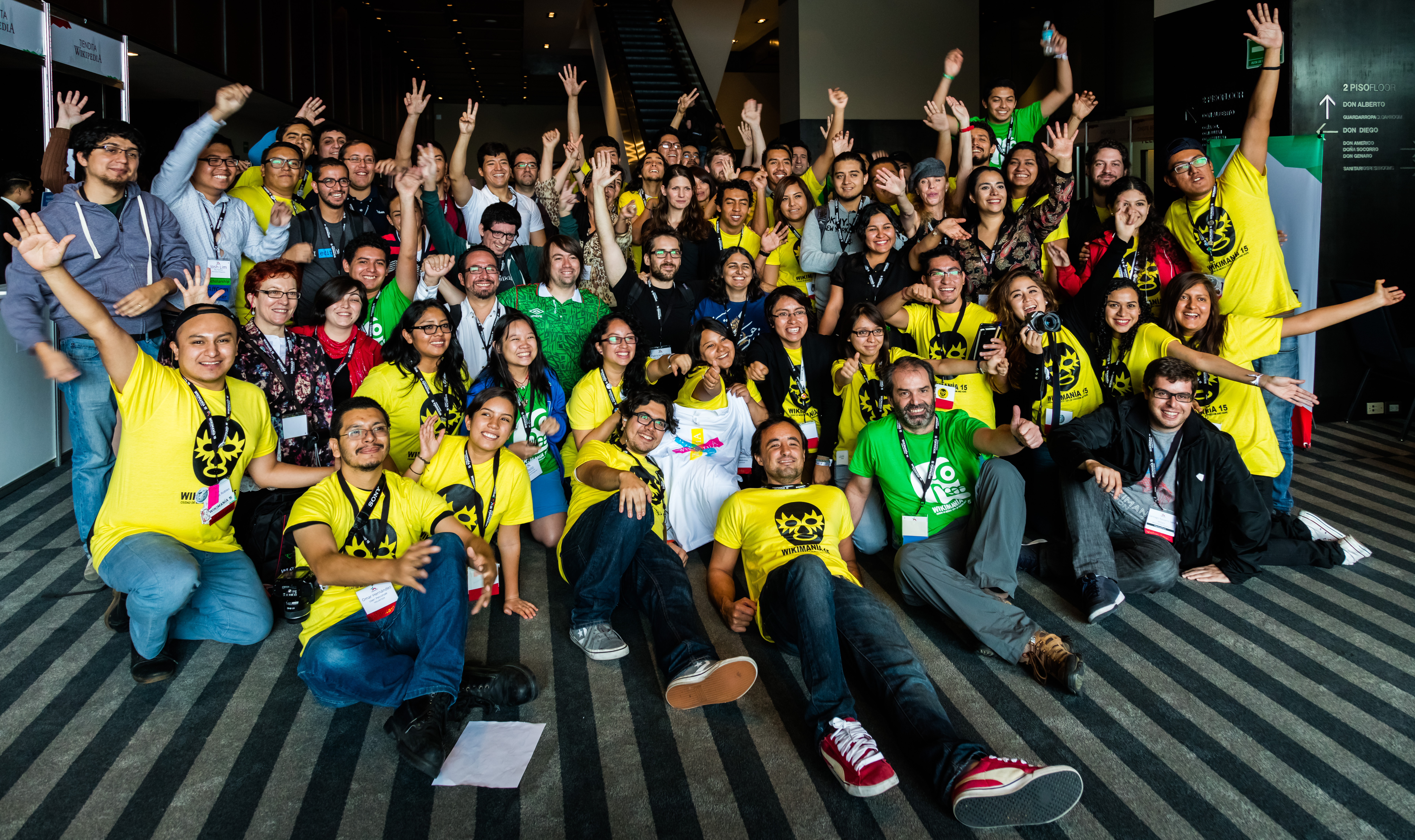 Wikimania 2015, Mexico City, Mexico